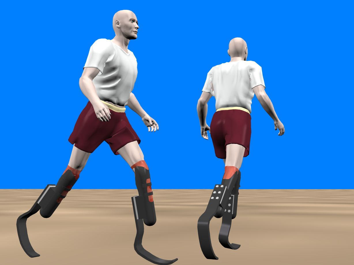 Two runners using Flex-Foot Cheetah or similar elastic prosthetic feet (sometimes called "bladerunners").